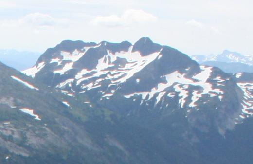 Coquihalla Mountain in southwestern British Columbia, Canada.